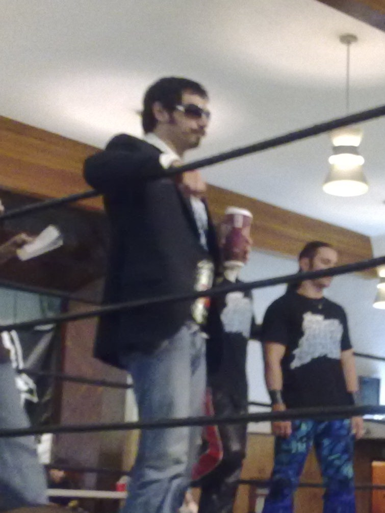 2Professional wrestler Austin Aries wearing sunglasses and his ROH World Championship in the ring at Pro Wrestling Guerrilla's Battle of Los Angeles 2009 on November 20, 2009.